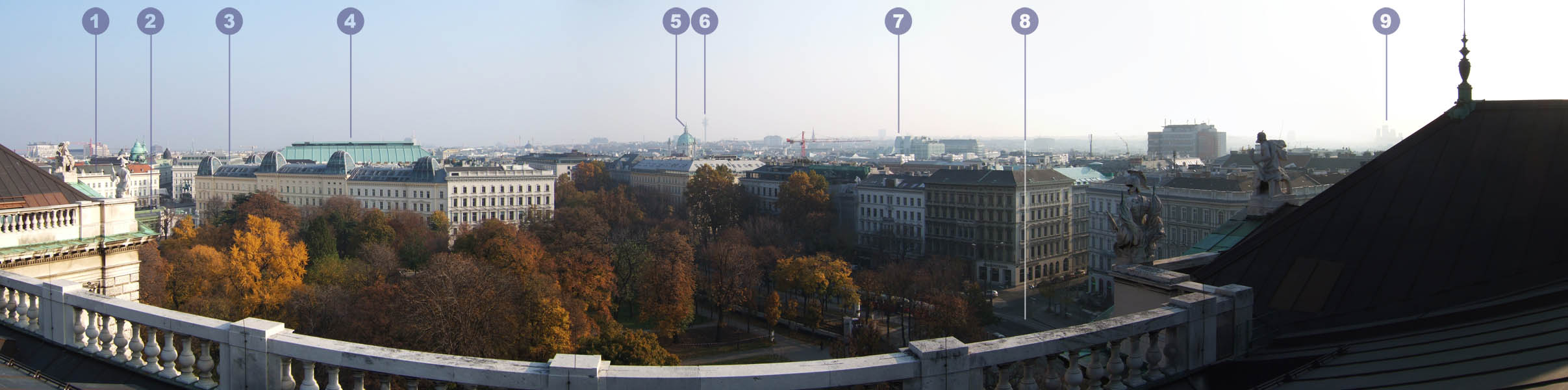 Aereal view of the Burggarten, city center of Vienna, Austria